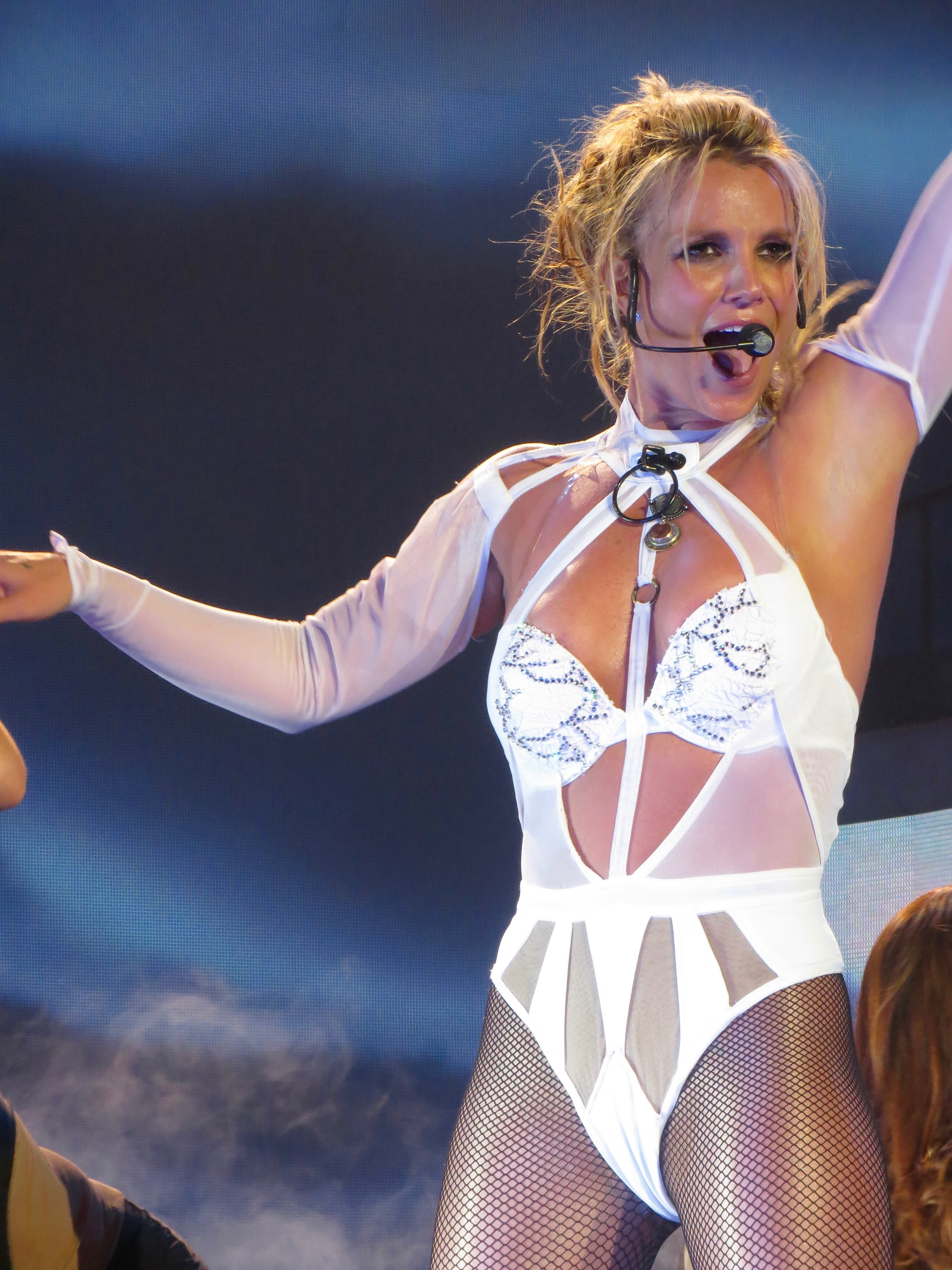 Britney Spears 7